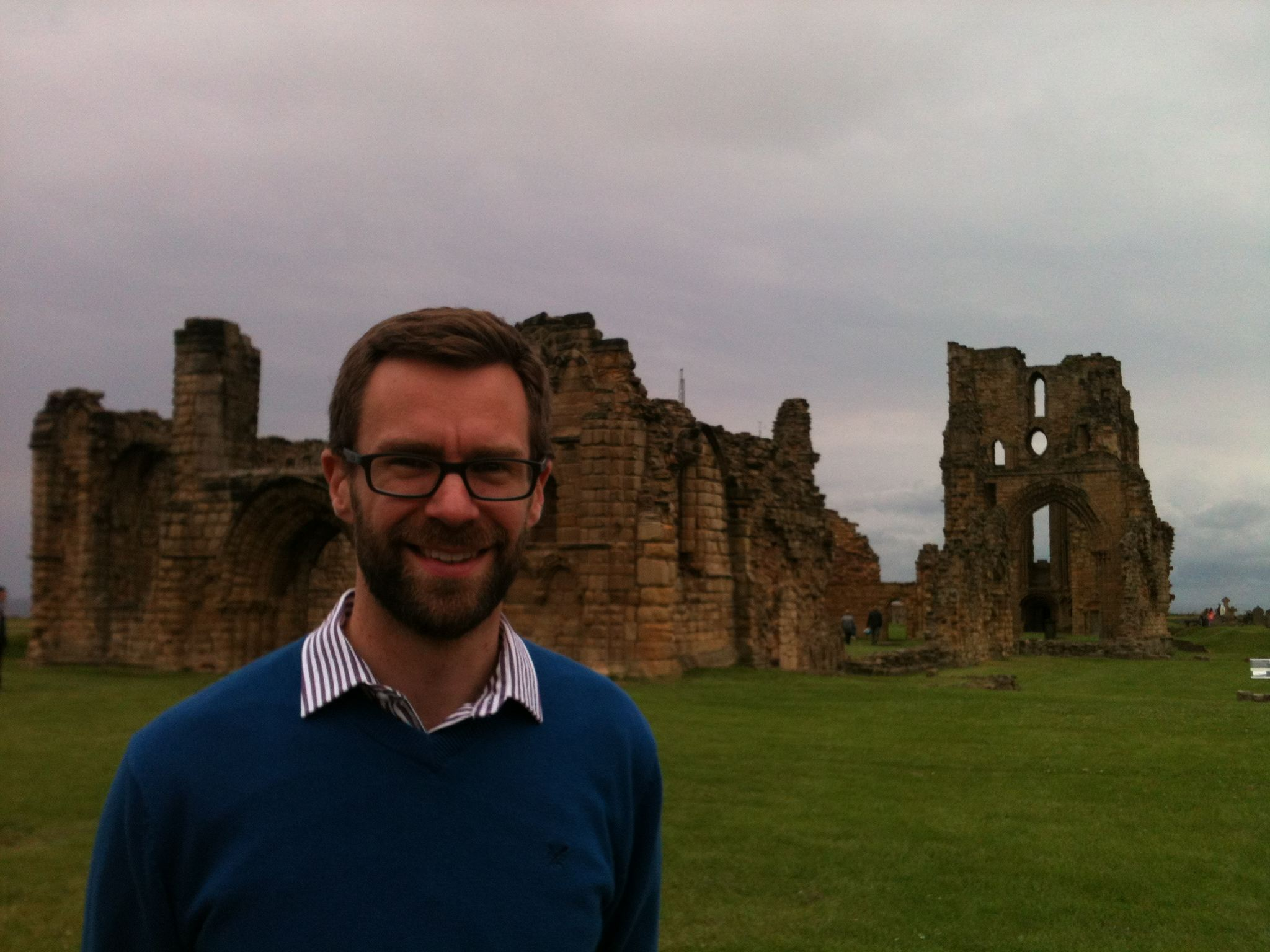 Christophe Fricker in front of the ruins of Tynemouth Priory (Northumberland)